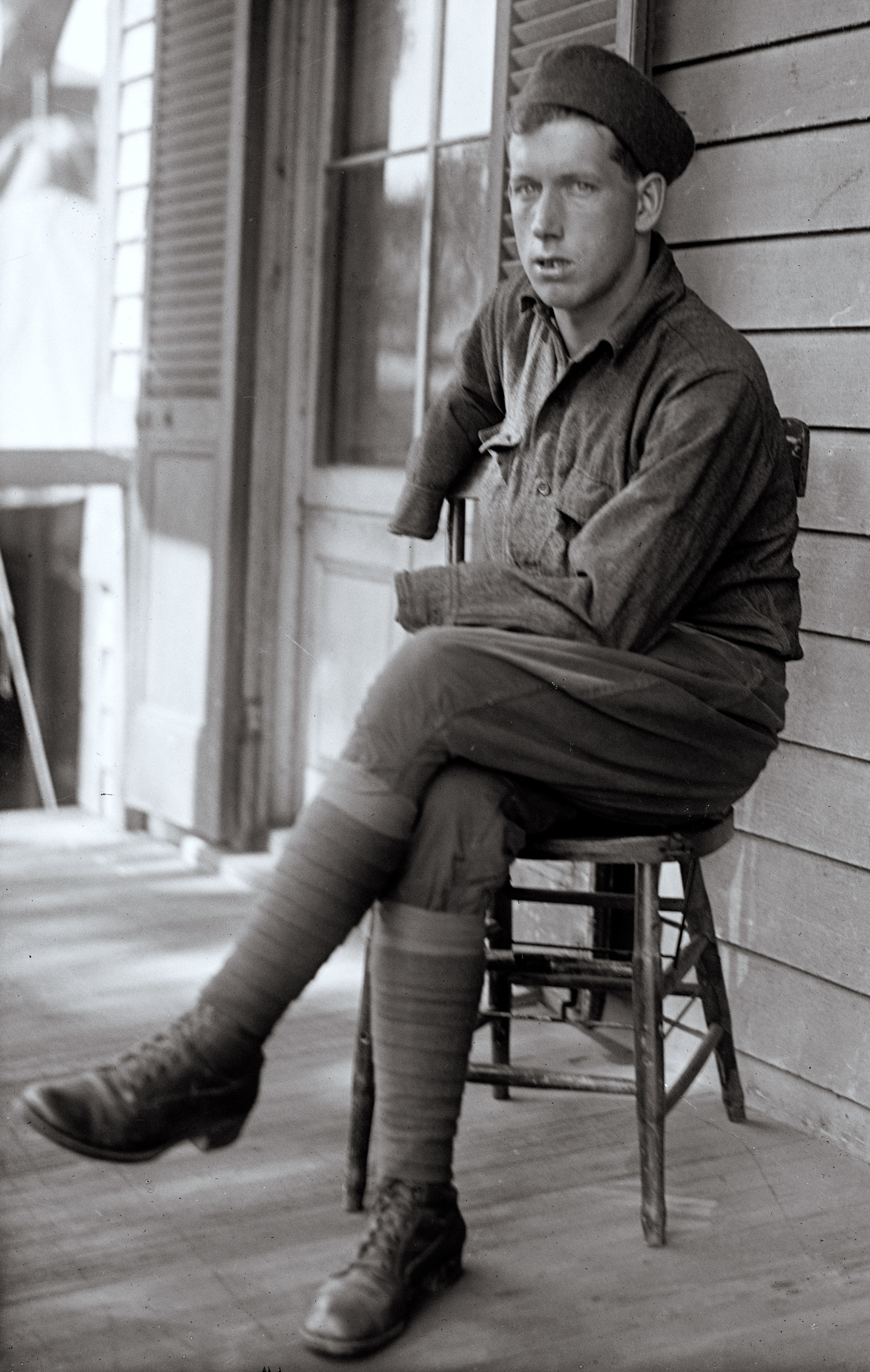 American soldier who lost both arms during a World War I battle. He was recovering at the Walter Reed Hospital in Washington, D.C.